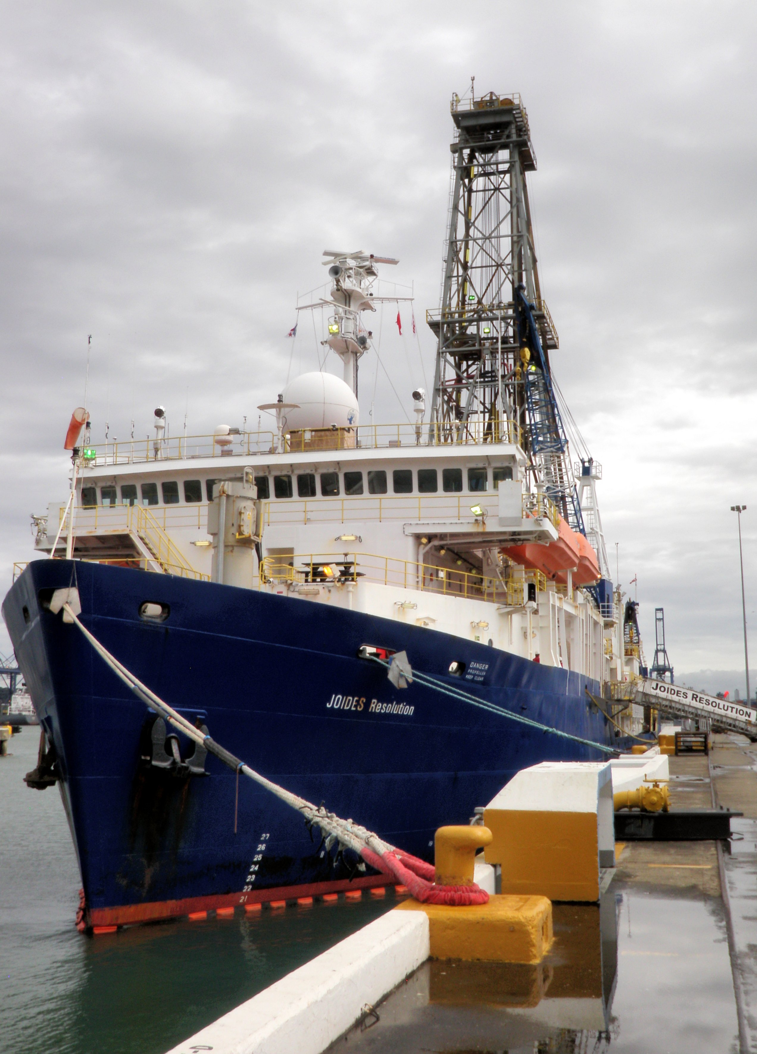 JOIDES Resolution docked in Panama in October 2012, just before IODP Expedition 344